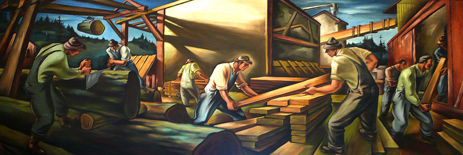 A mural by U.S. Treasury Section of Painting and Sculpture artist Carl Morris showing lumber workers; funded by the U.S. Treasury Section of Painting and Sculpture for the Eugene, Oregon Post Office; painted in 1942 and installed in 1943, Oregon Blue Book